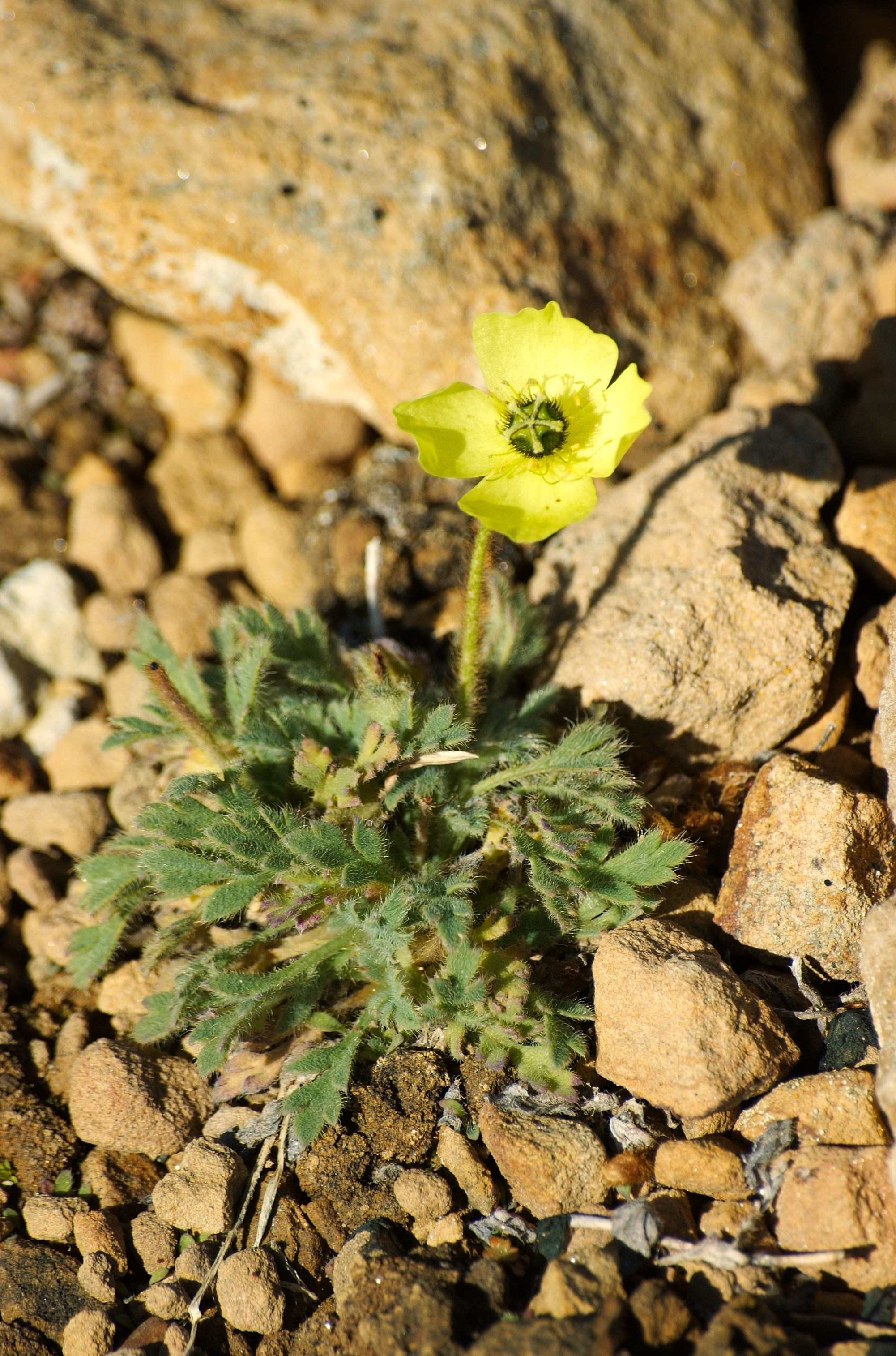 Papaver radicatum photograped in Greenland (Jameson Land) at 1000 m altitude august 2007.